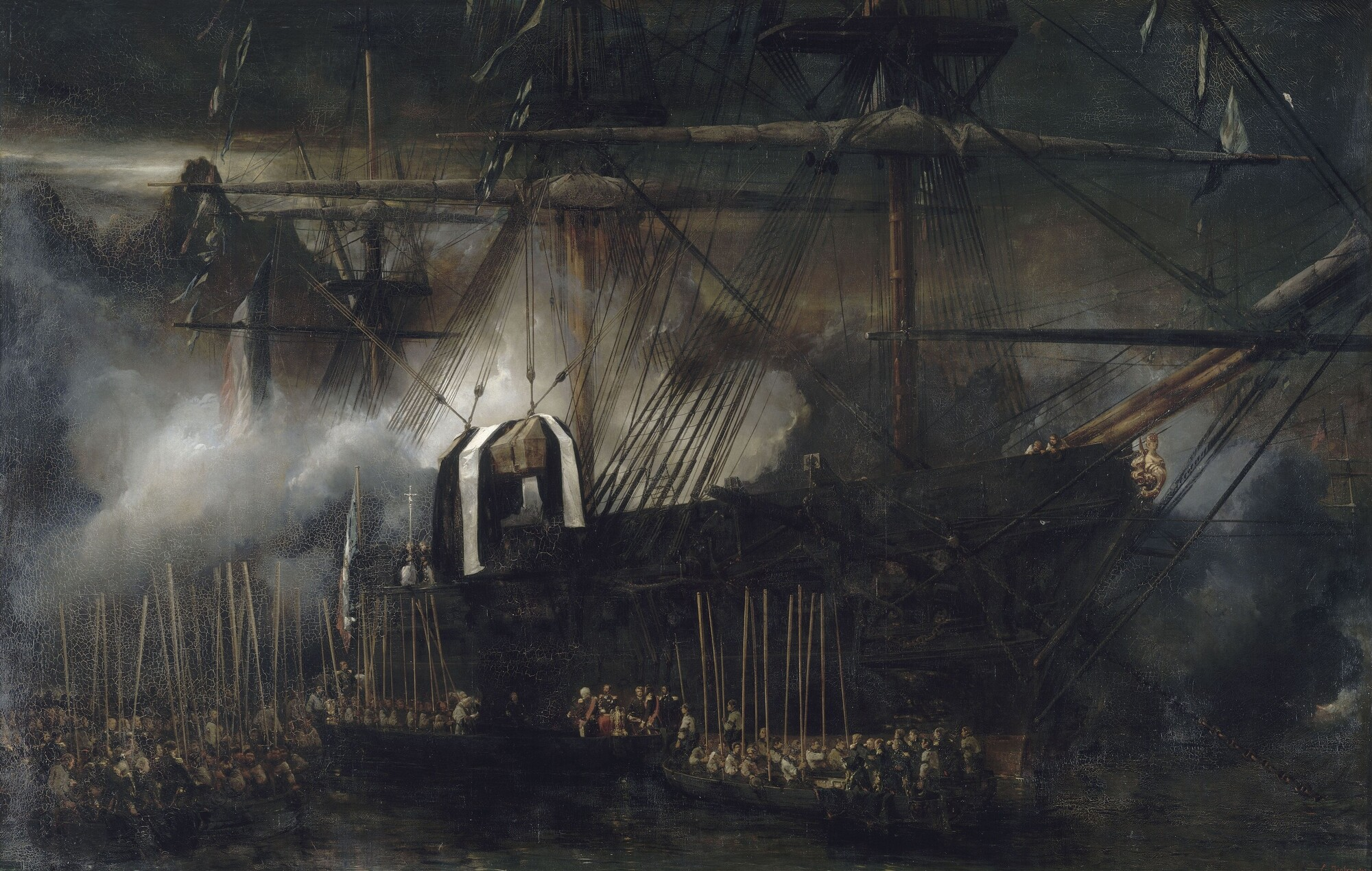 The frigate Belle Poule